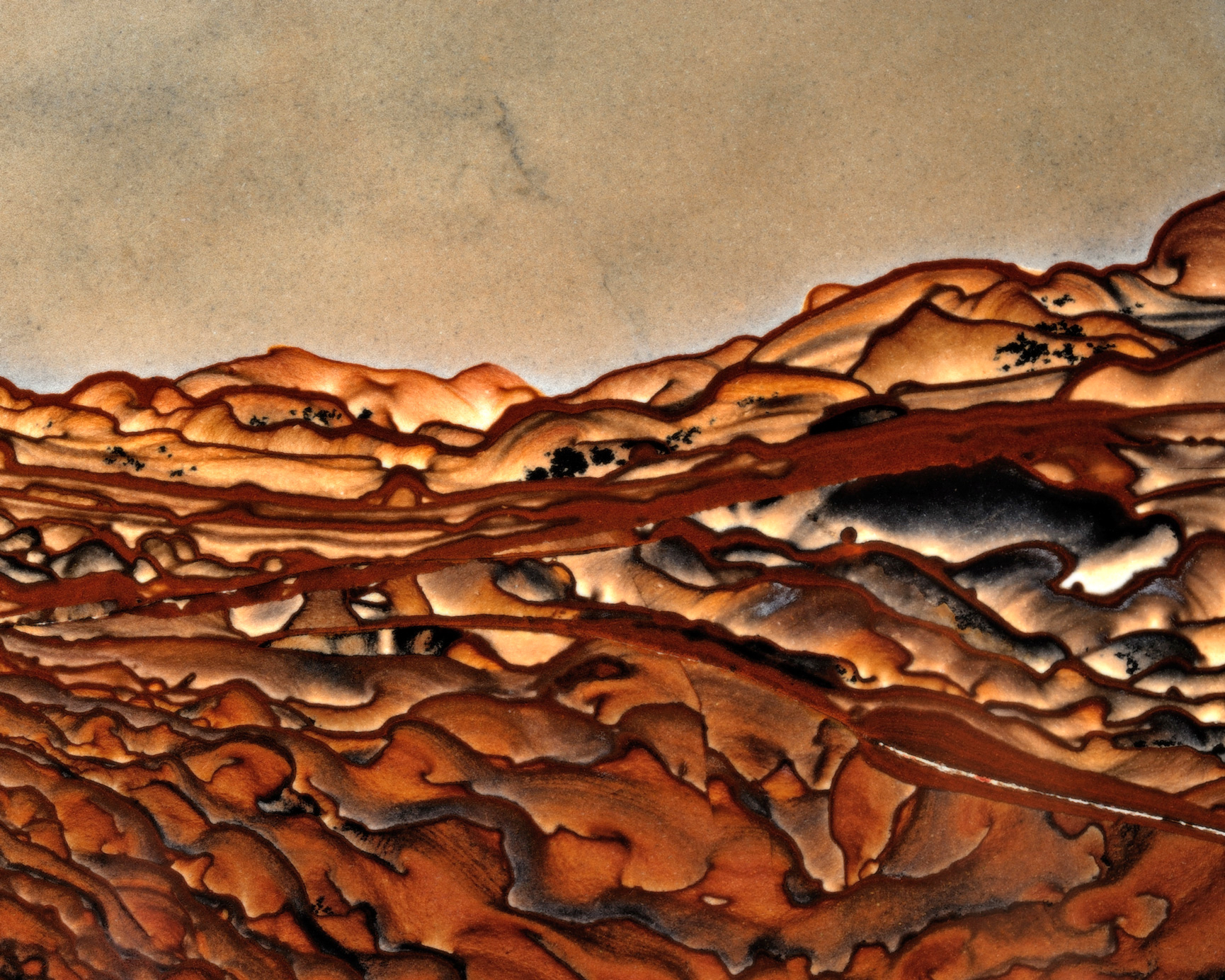 A piece of Biggs jasper. The upper part is untransformed rock.